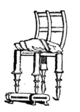 Roman "cathedra" chair from the painting in Pompeia.